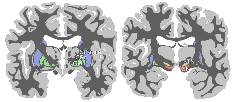 two schematic drawings of coronal sections of human brain labelling the basal ganglia. Blue=striatum, green=globus pallidus (external and internal segments), yellow=subthalamic nucleus, red=substantia nigra (pars reticulata and pars compacta). The right section is the deeper one, closer to the brainstem.